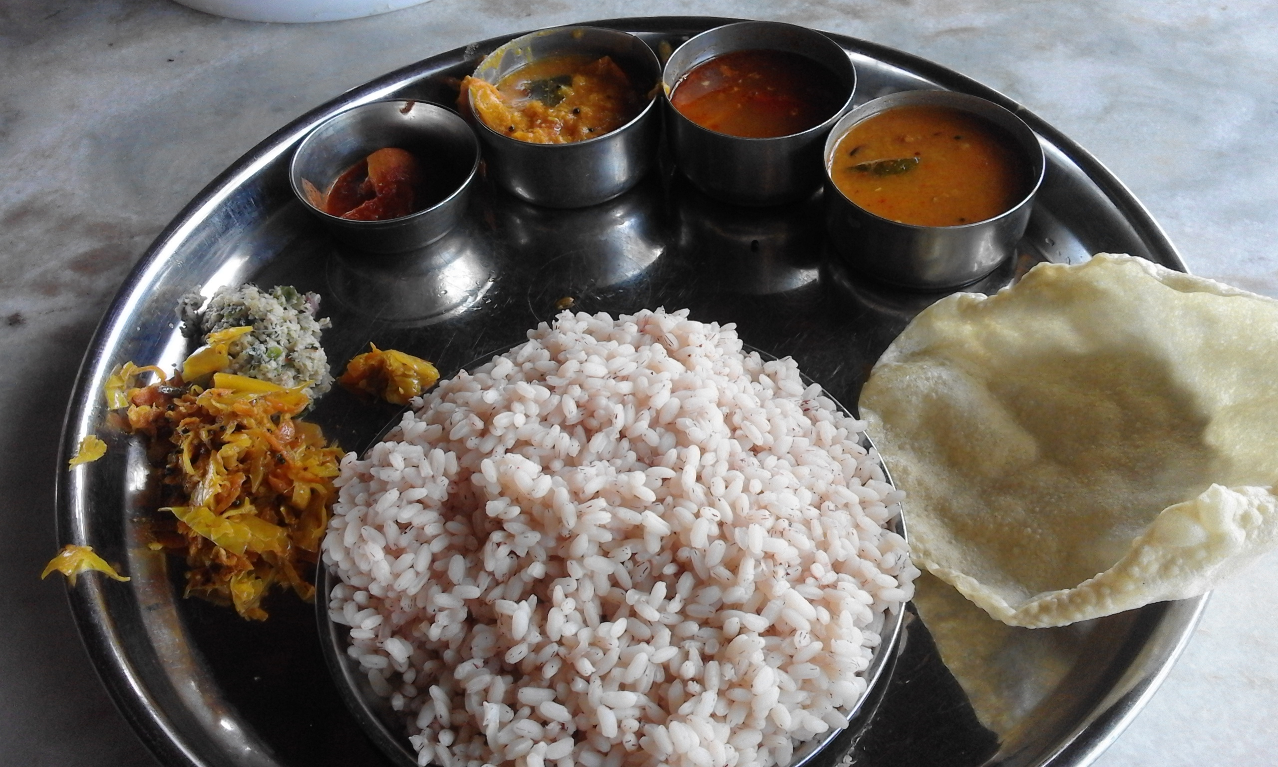 New Coffee Shoppee, Gundalpet, Mysore.